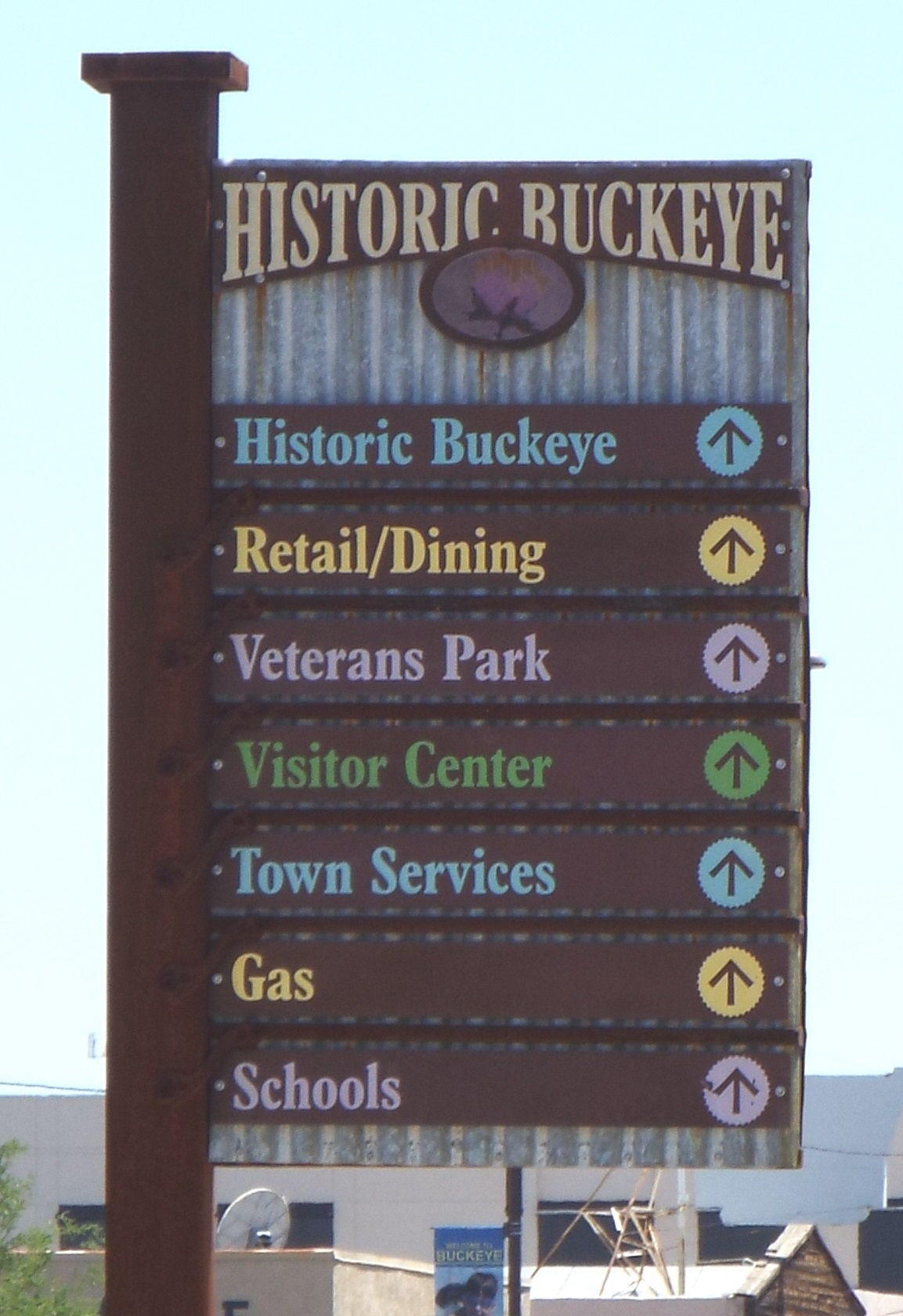 Entrance to the town of Buckeye, Arizona.